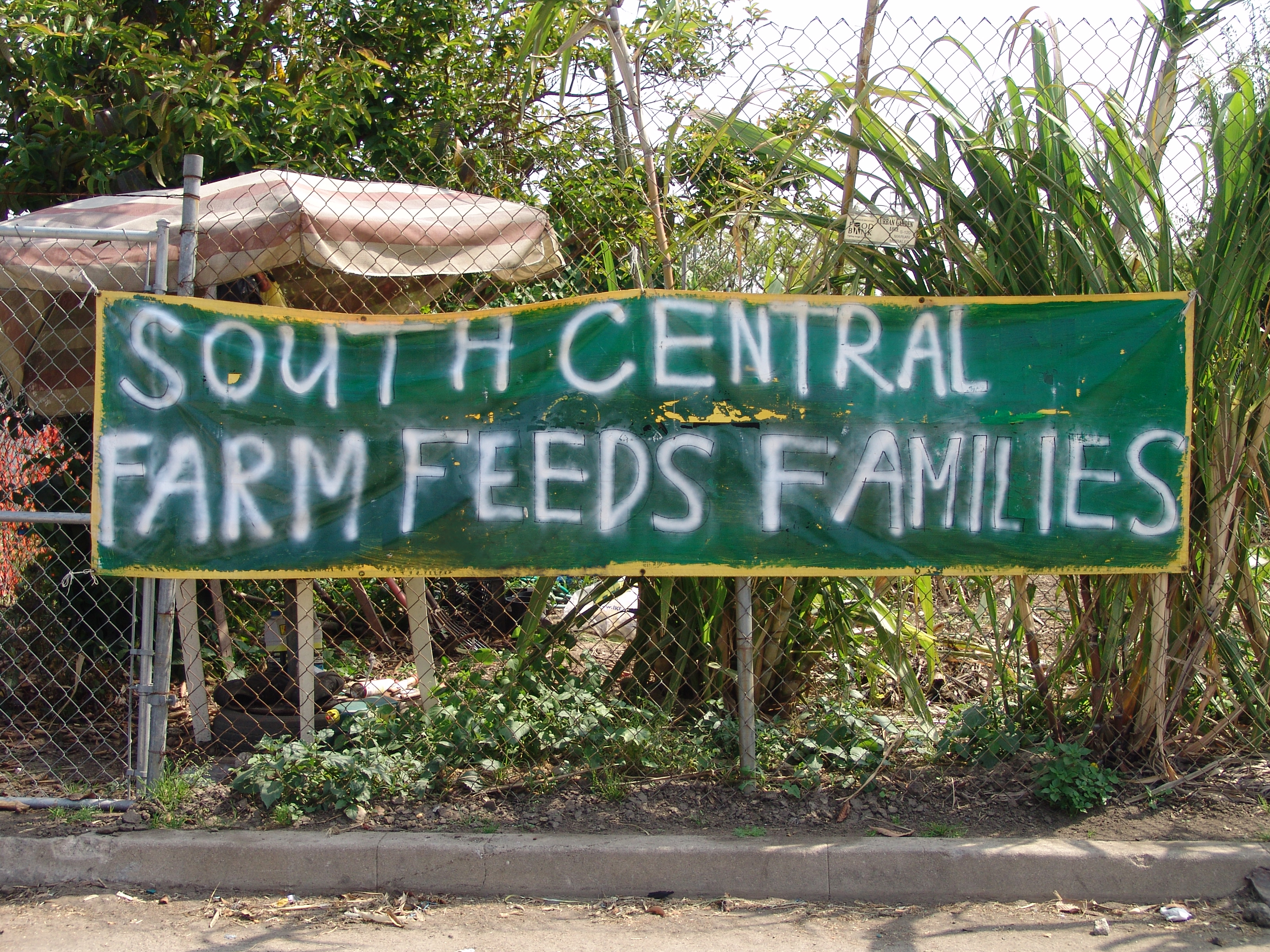 South Central Farm in the city of Los Angeles California. The 14 acres located at 41st and Alameda St. is one of the largest urban gardens in the United States.